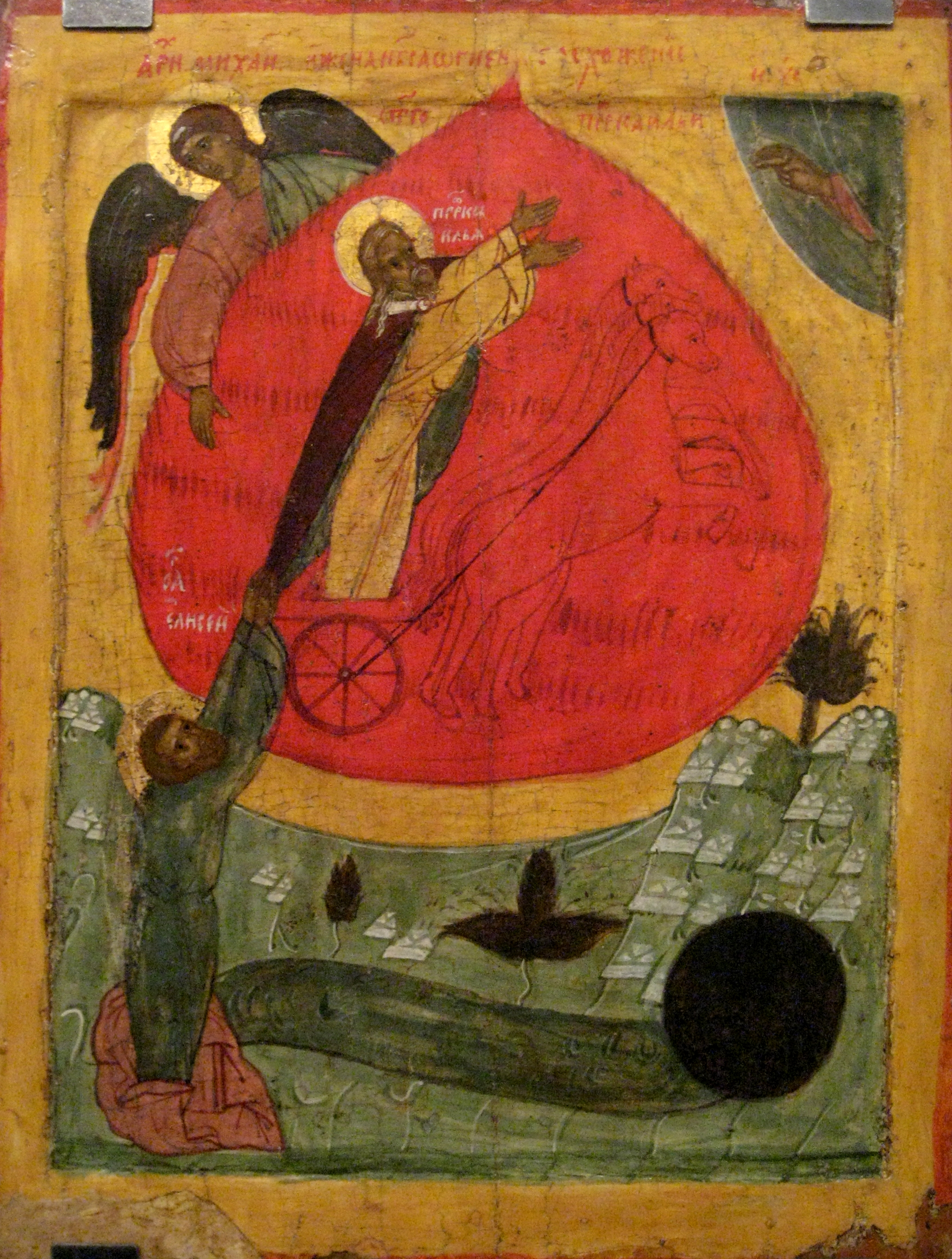 Elijah icon, Nizhniy Novhorod school